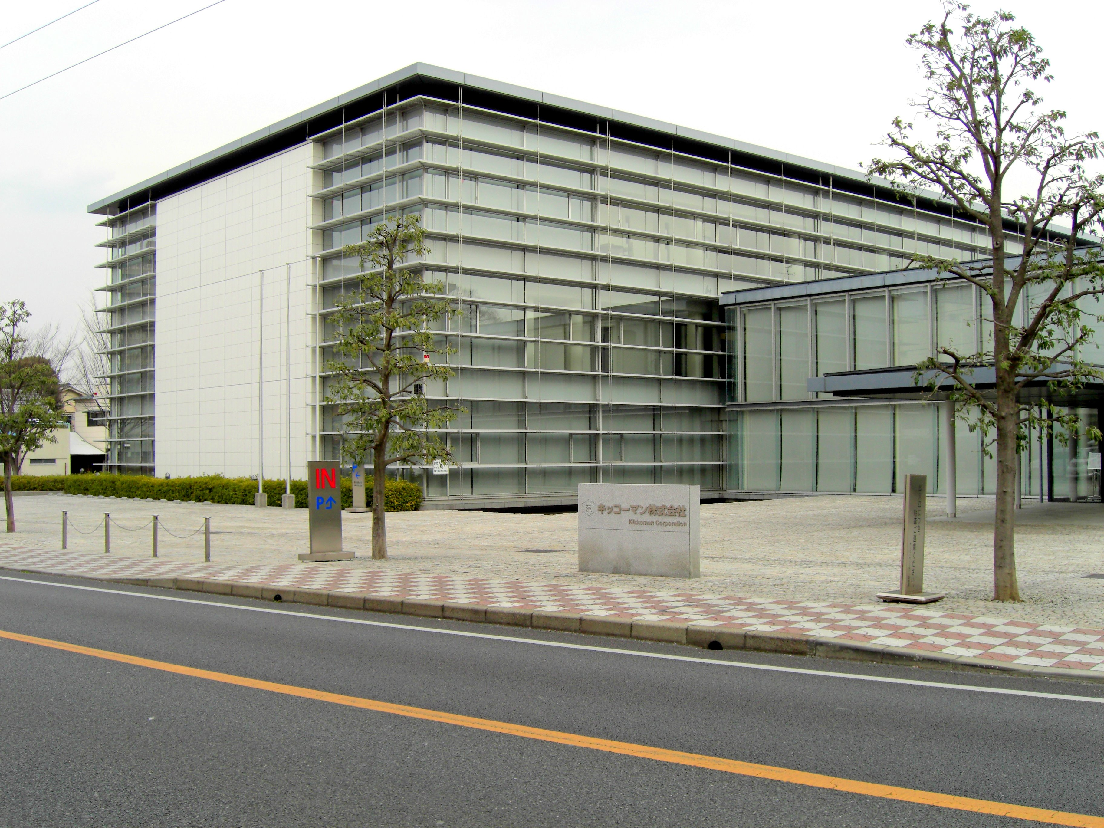 Kikkoman Corporation head office